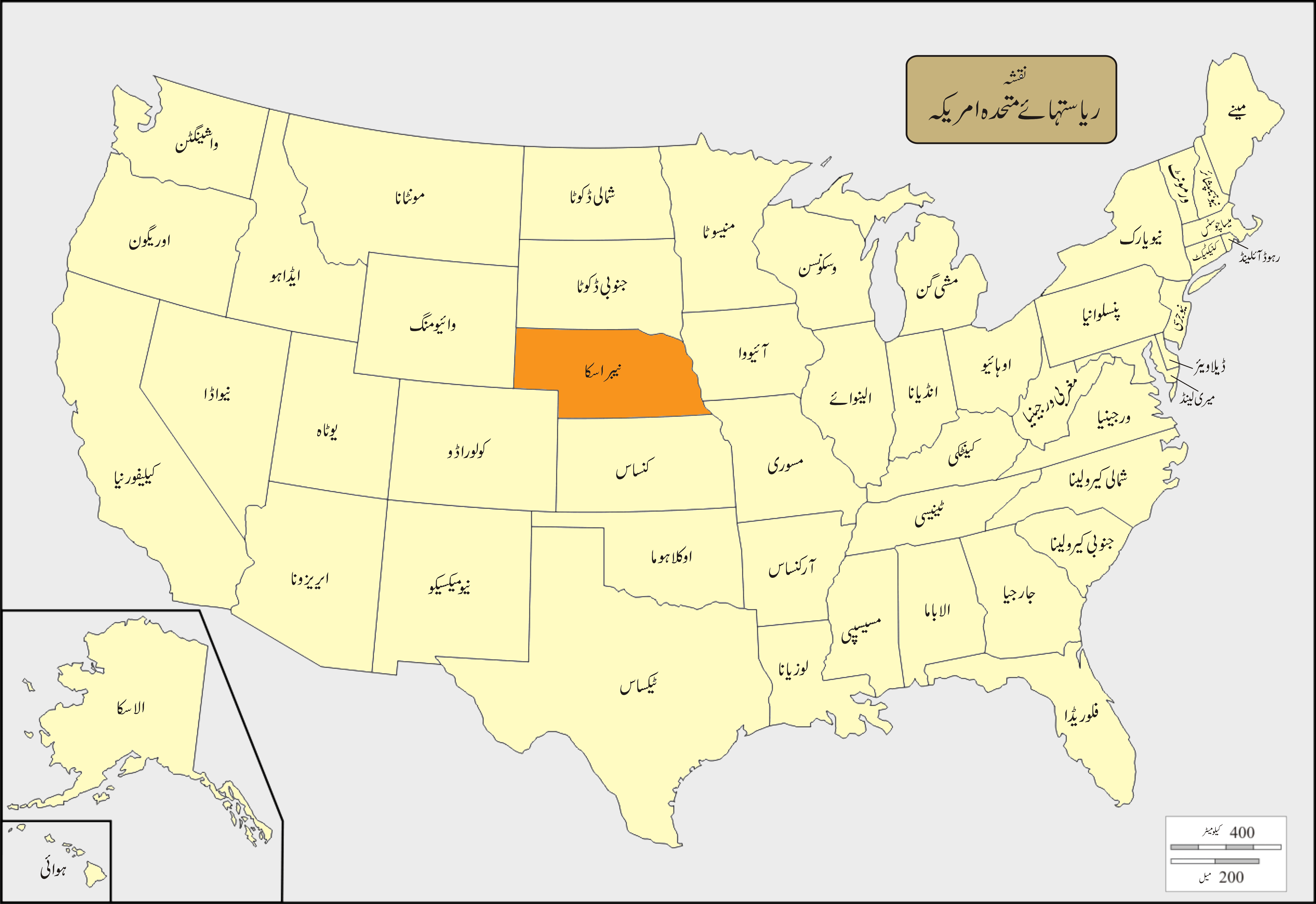 USA Names Nebraska